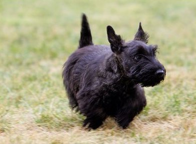 Photograph of Miss Beazley